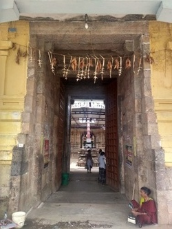 Tirukkannamangai bakthavatchalaperumal temple திருக்கண்ணமங்கை பக்தவத்சலபெருமாள் கோயில்